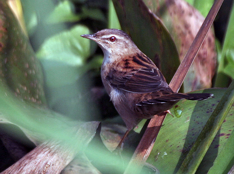 Pallas's Grasshopper Warbler [Rusty-rumped Warbler] Locustella certhiola in Kolkata, West Bengal, India.